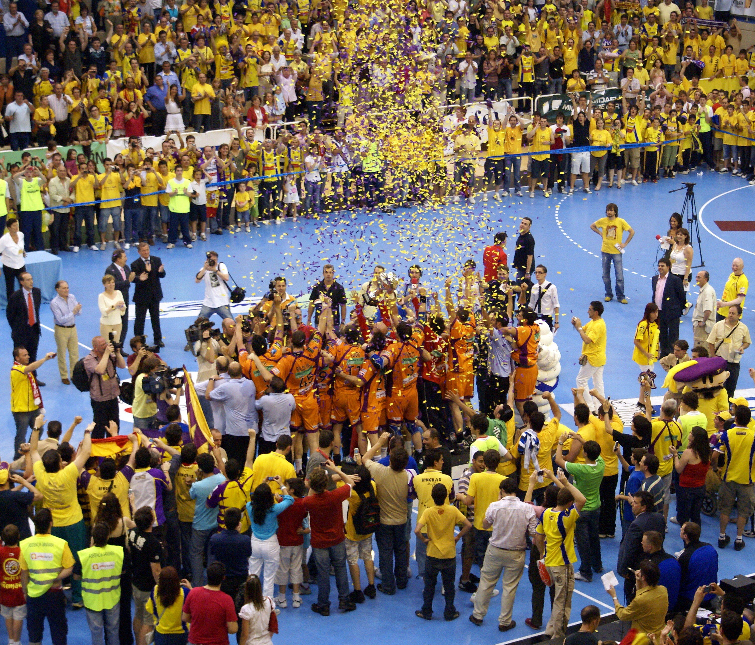 BM Valladolid after winning the EHF Cup Winner's Cup in Valladolid vs HSG Nordhorn.